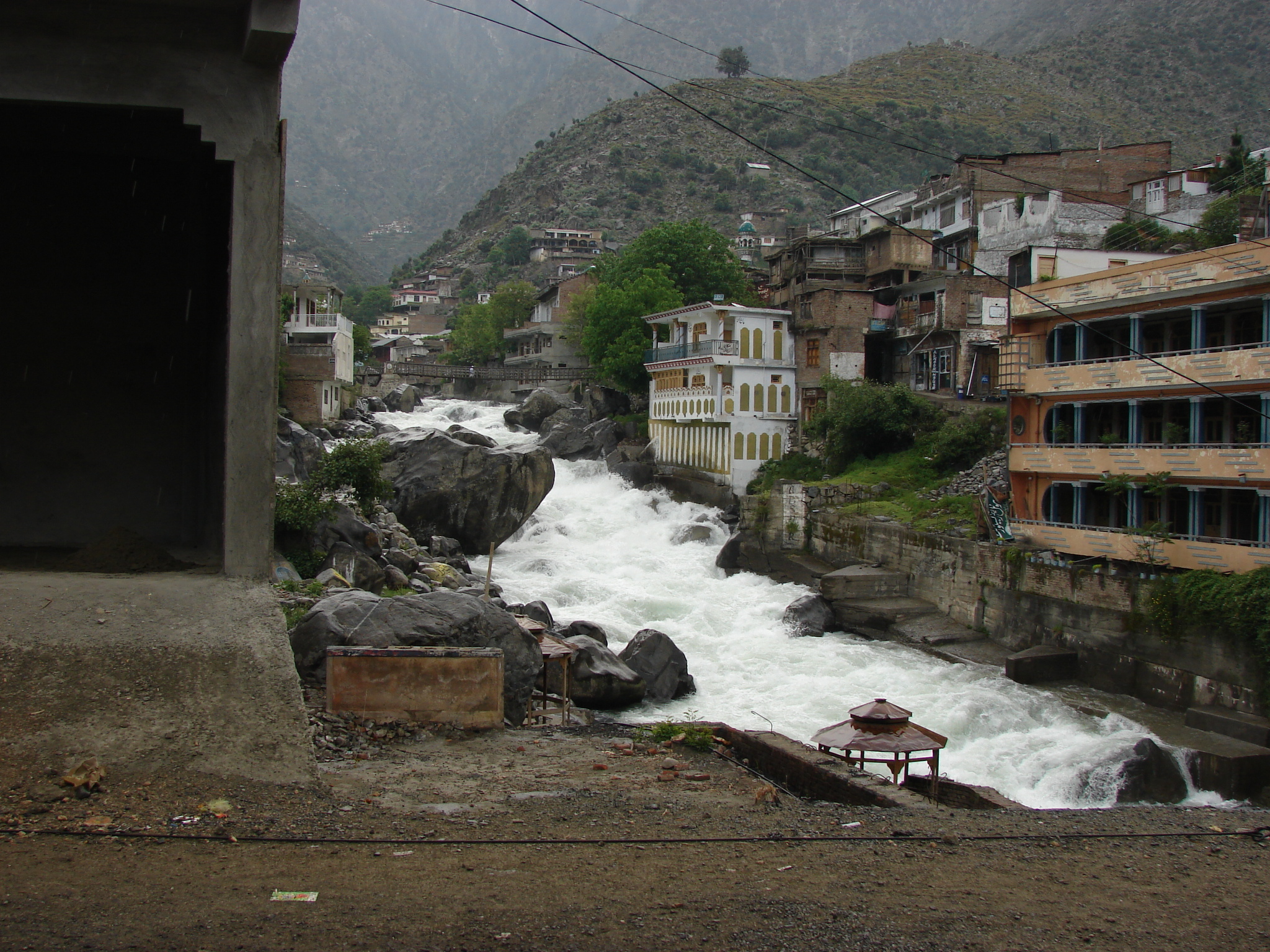 Daral River in Bahrain, Swat Valley, Pakistan